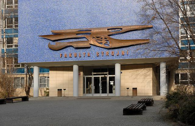 Building of the Faculty of Mechanical Engineering, CTU in Prague (Technická Street)